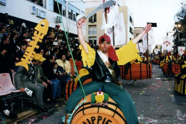 Ovar's (Portugal) Grupo Carnavalesco Os Hippies' 1998 Carnival parade